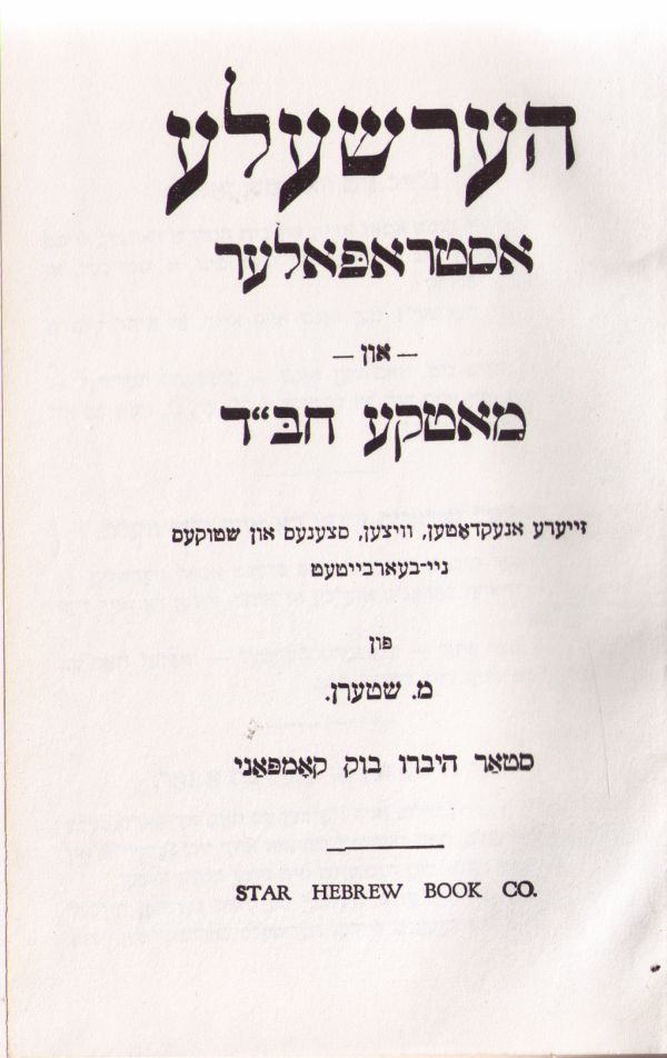 Jewish Humor book - "mothe chabad"